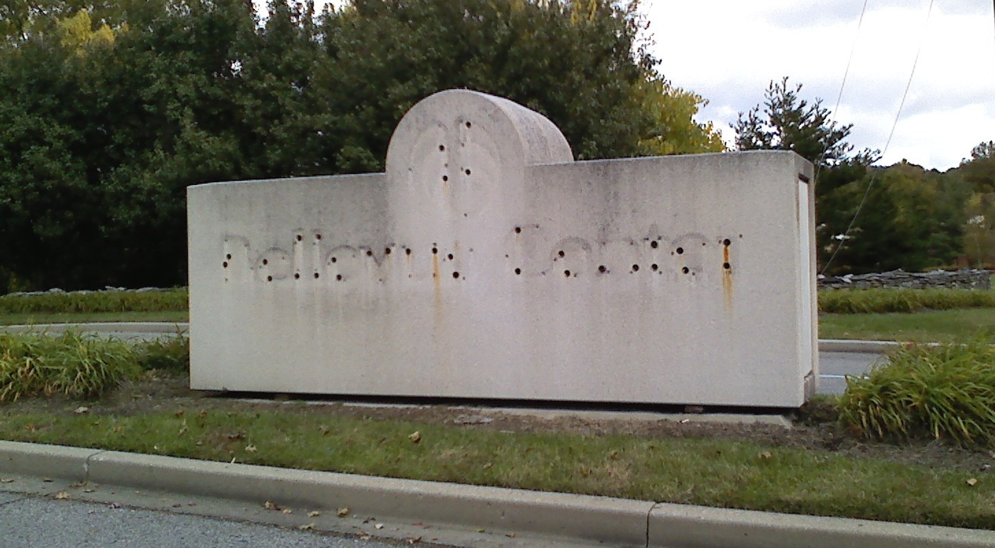 The sign at one of the entrances to the defunct Bellevue Center Mall. Logo and lettering removed.